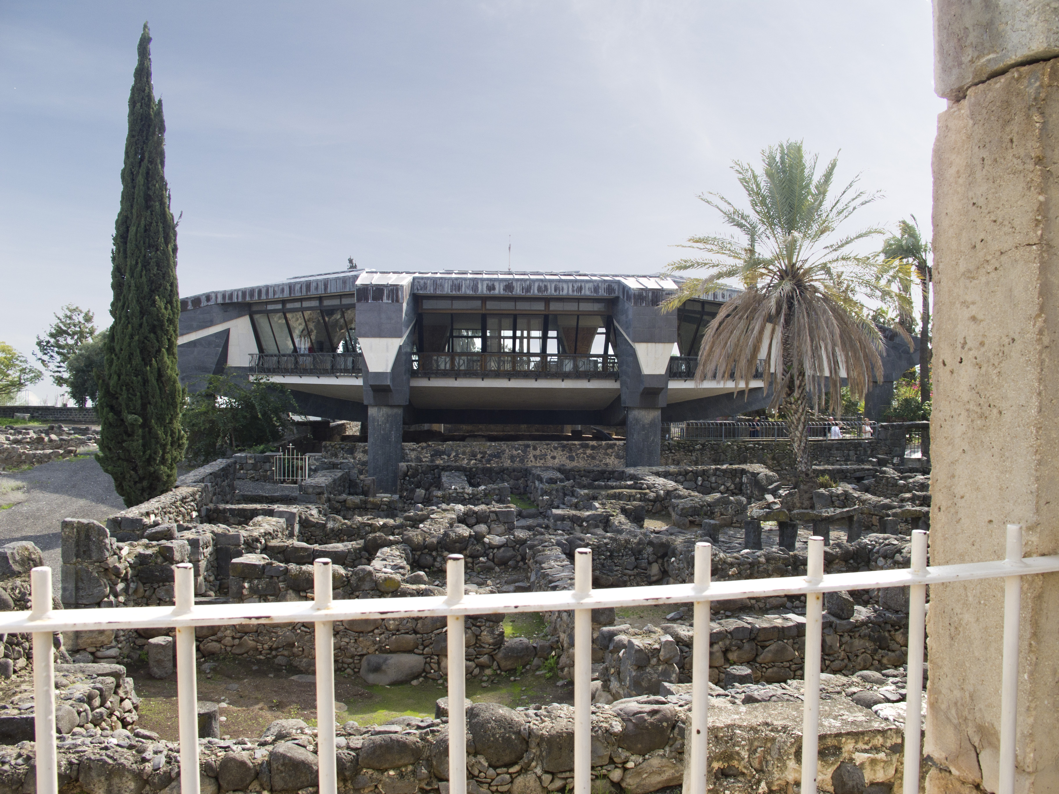 Amongst the ruins of Capernaum, a church was built suspended above the purported site of Simon-Peter's home. On Google Earth: 32°52'50.12"N, 35°34'31.47"E Israel. 20110222 Israel 0134+98sky Capernaum (5539852683).jpg